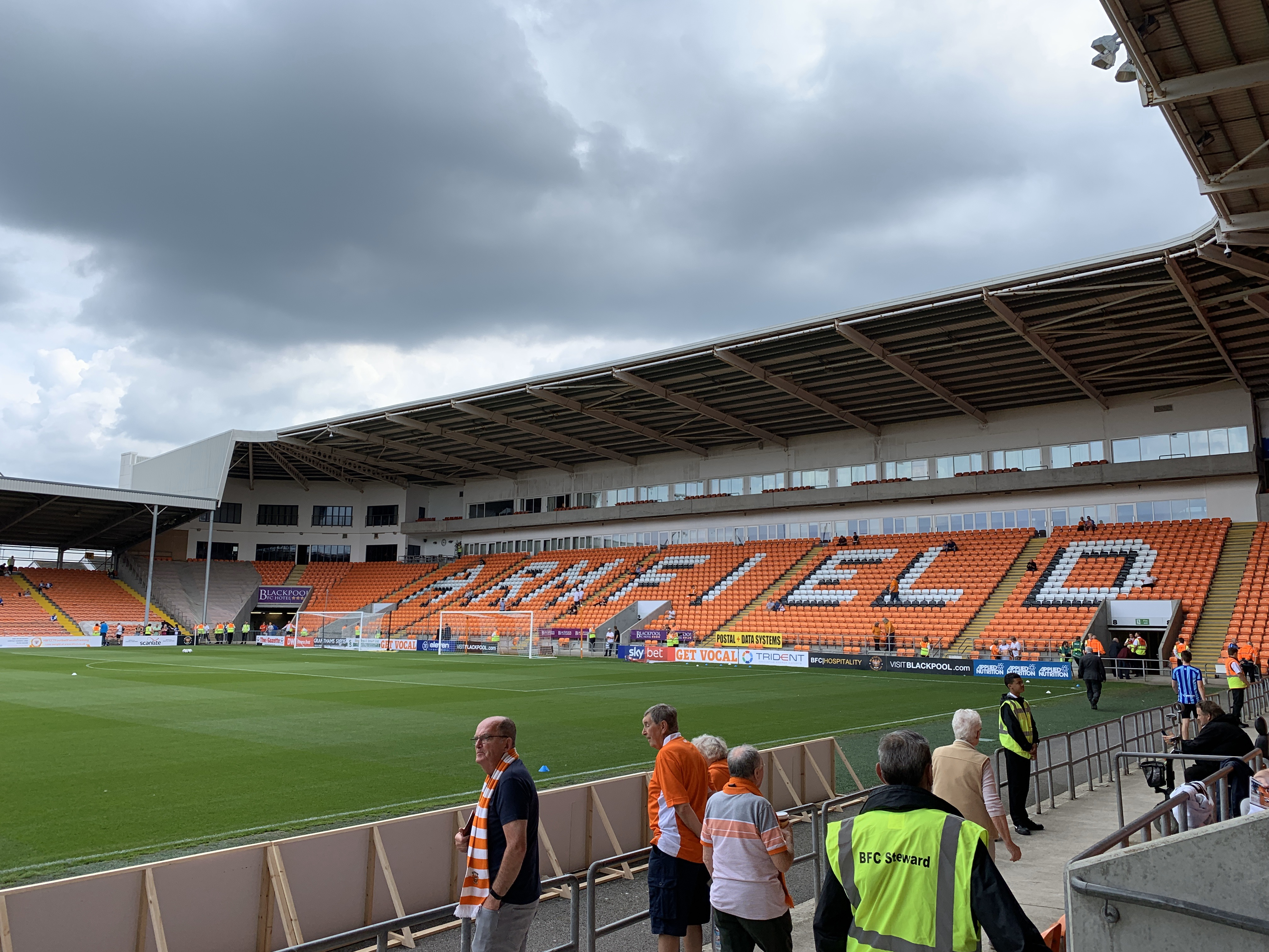 The south stand at Bloomfield Road.